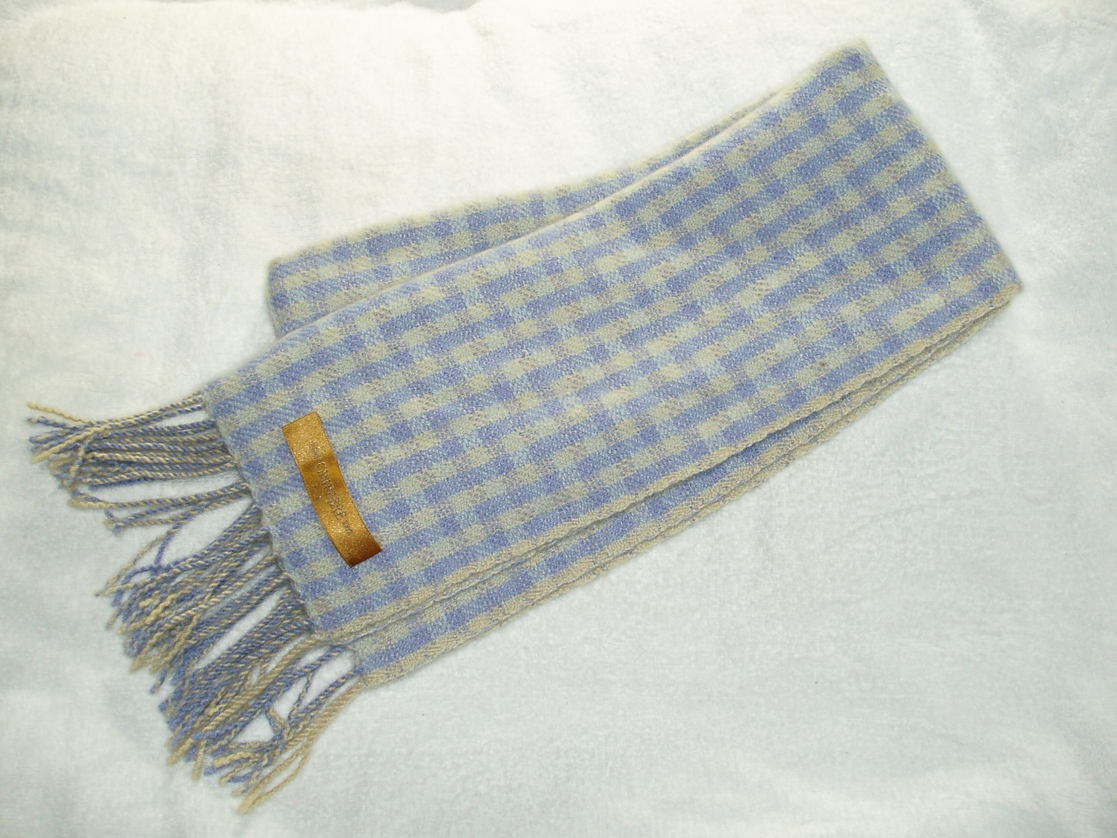 Cashmere muffler